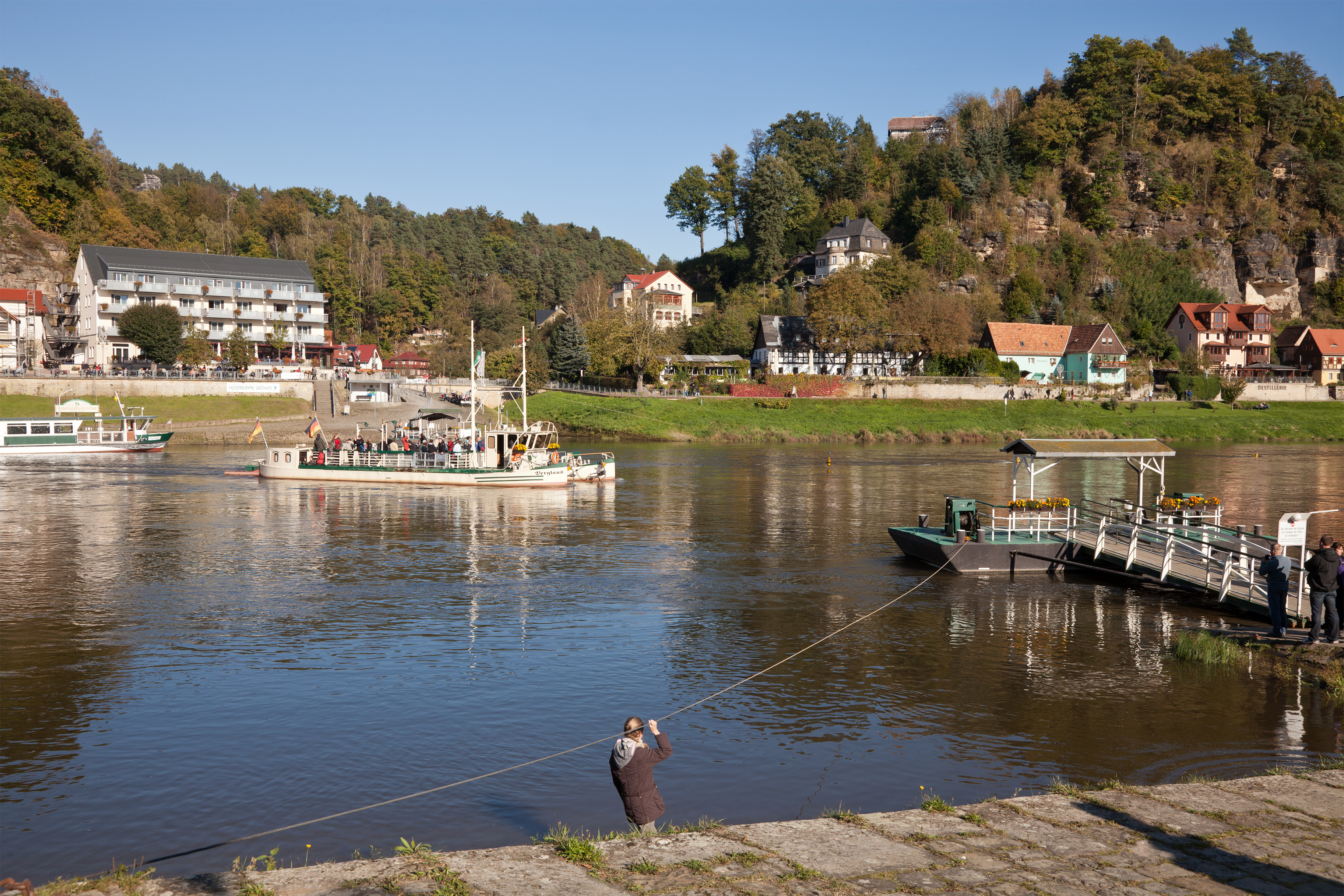 The Rathen Ferry across the River Elbe in Saxony, Germany. The ferry is in mid-stream, looking towards Niederrathen. For more information, see the Wikipedia article Rathen Ferry.